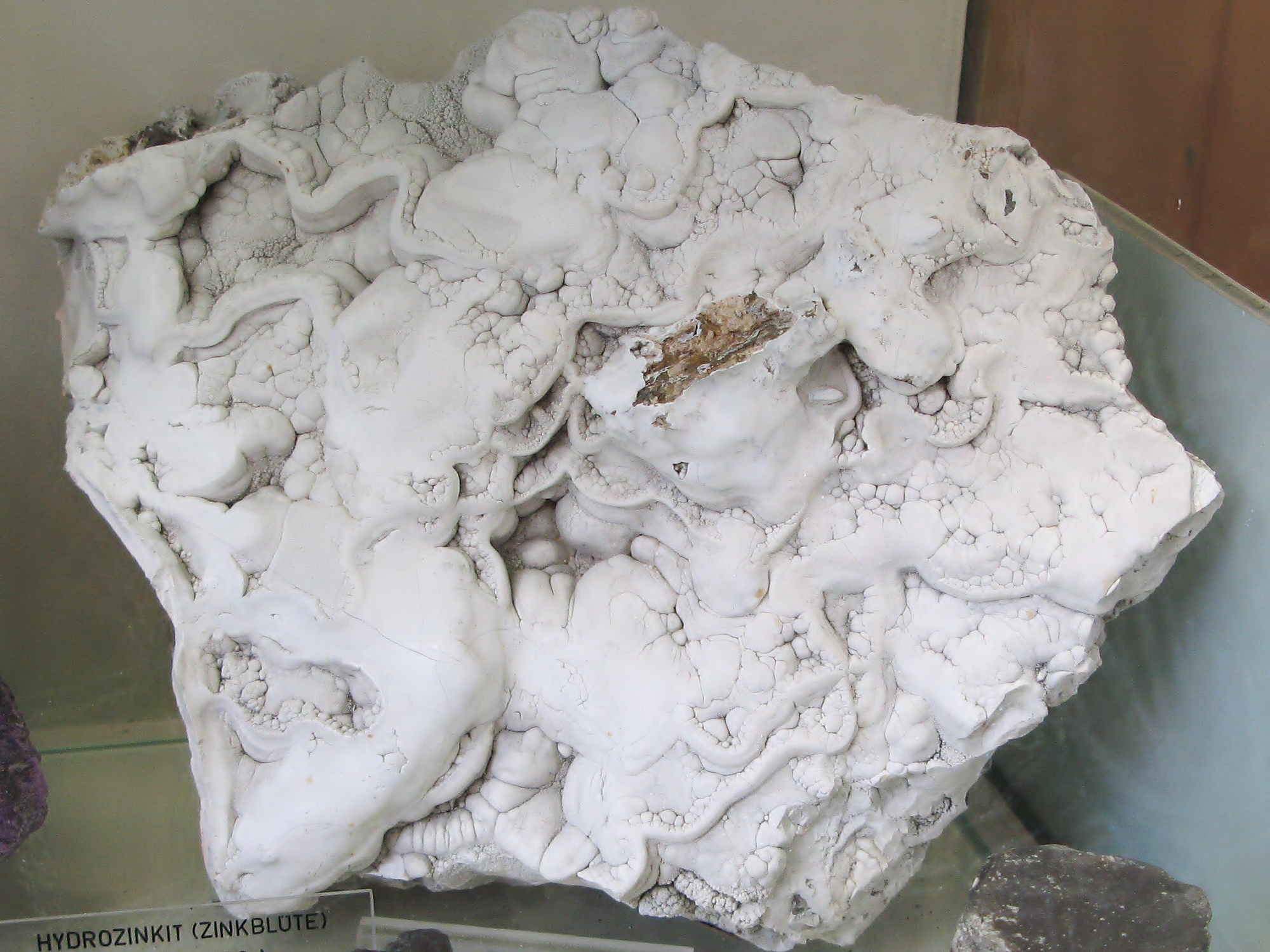 Hydrozincite - Locality: Santander, Spain - Exposed in the Mineralogical Museum, Bonn, Germany